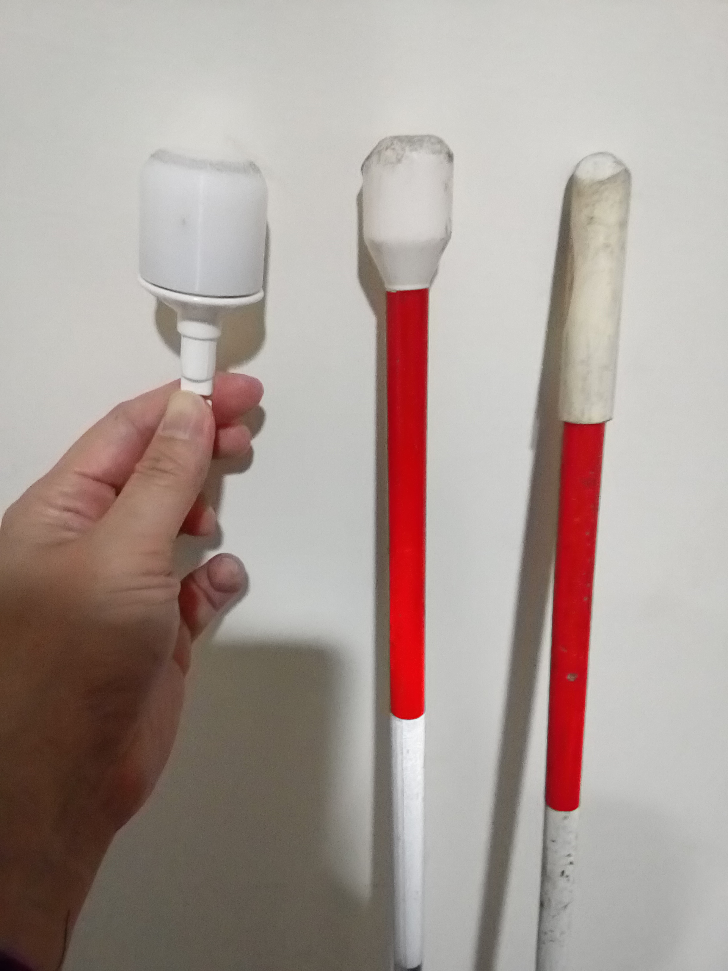 Three kinds of white cane tips